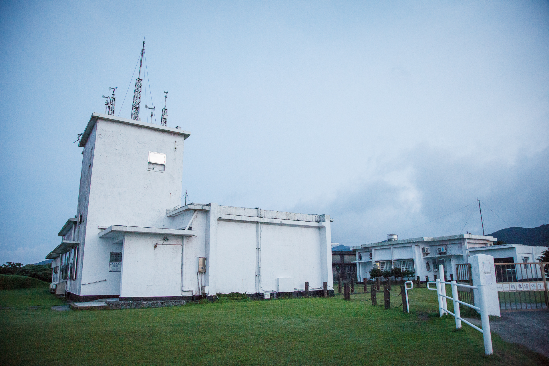 This photo is shows the Lanyu Weather Station. It's located at Orchid Island in Taiwan.